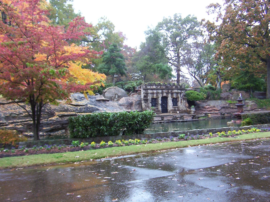 Image of a pond and fountain next to the Crystal Shrine Grotto at the Memorial Park Cemetery, Memphis, Tennessee Photo made by: Thomas R Machnitzki (Nov. 2007) I made the photo myself, feel free to use it.